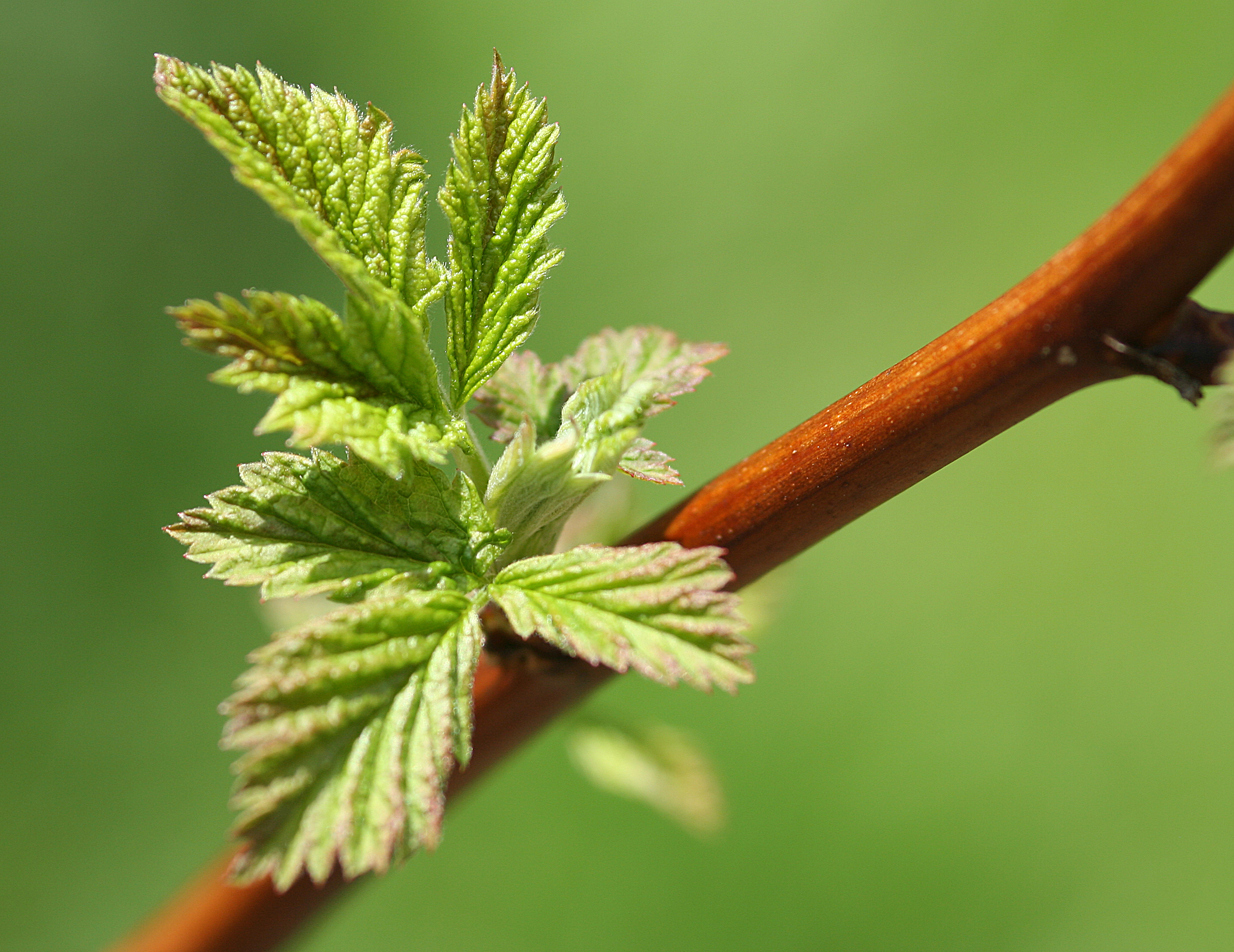 Raspberry "Glen Prosen".